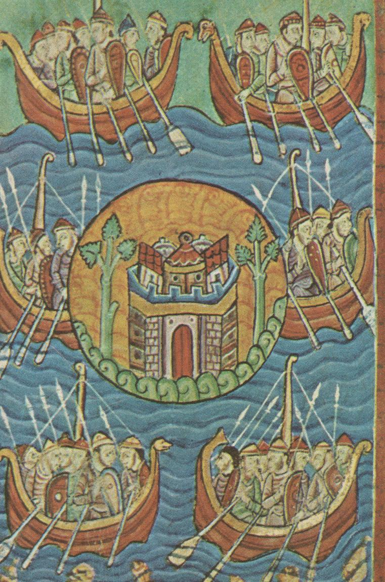 anamorfosis